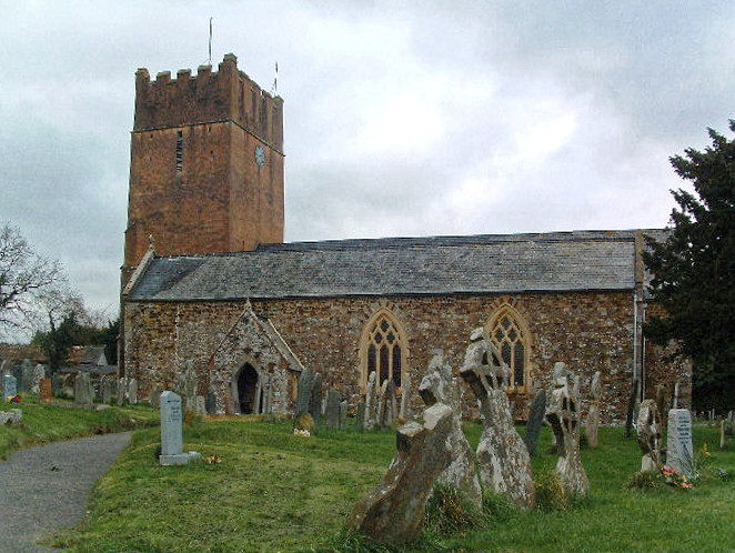 St Edmund's parish church, Dolton, Devon, seen from the southeast